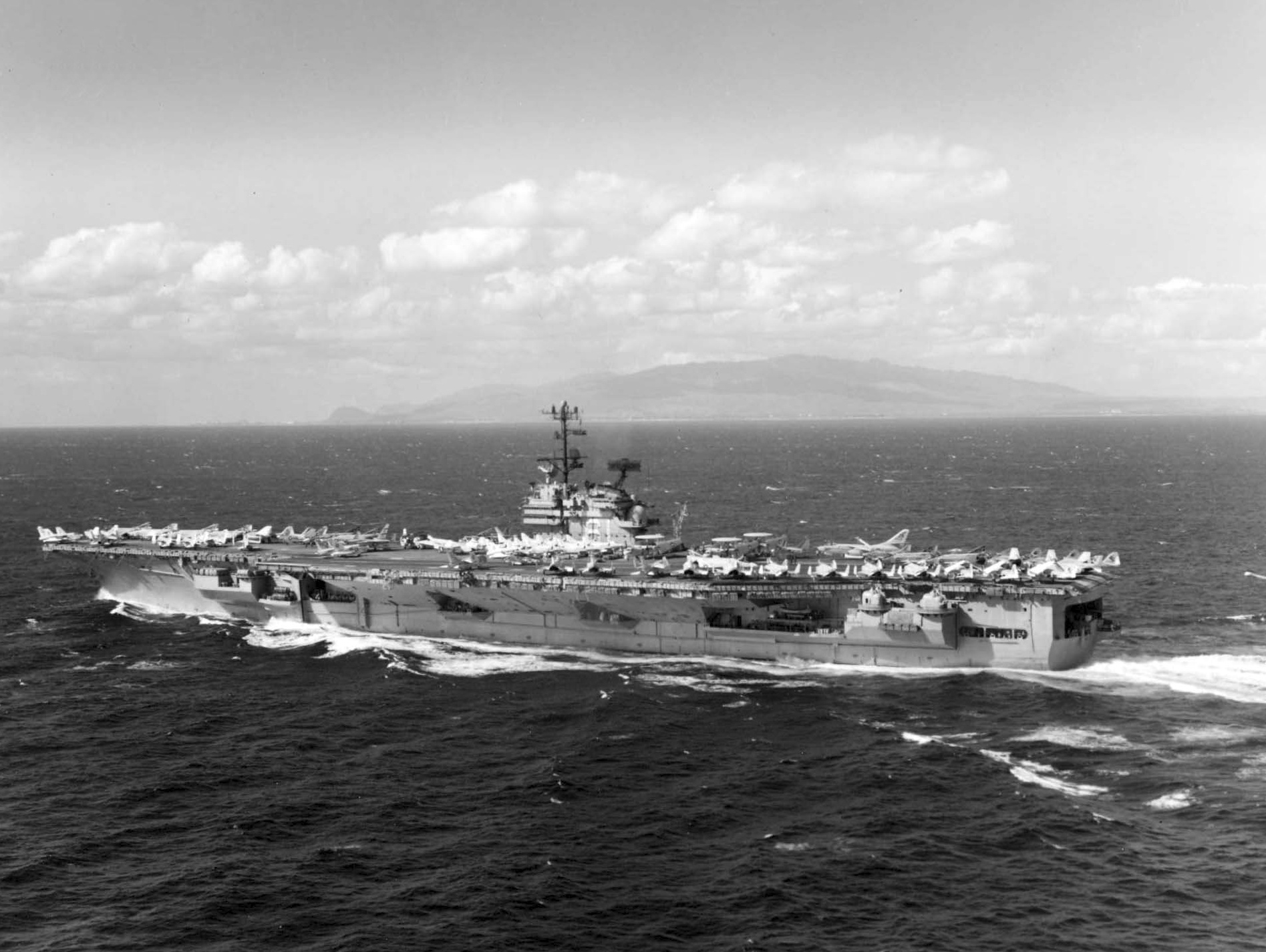 The U.S. Navy aircraft carrier USS Ranger (CVA-61) underway off Hawaii (USA), in November 1967. Ranger, with assigned Carrier Air Wing 2 (CVW-2), was deployed to Vietnam from 4 November 1967 to 25 May 1968.